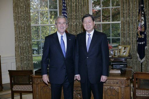 President George W. Bush and Ambassador of the Republic of Korea Lee Tae-sik.